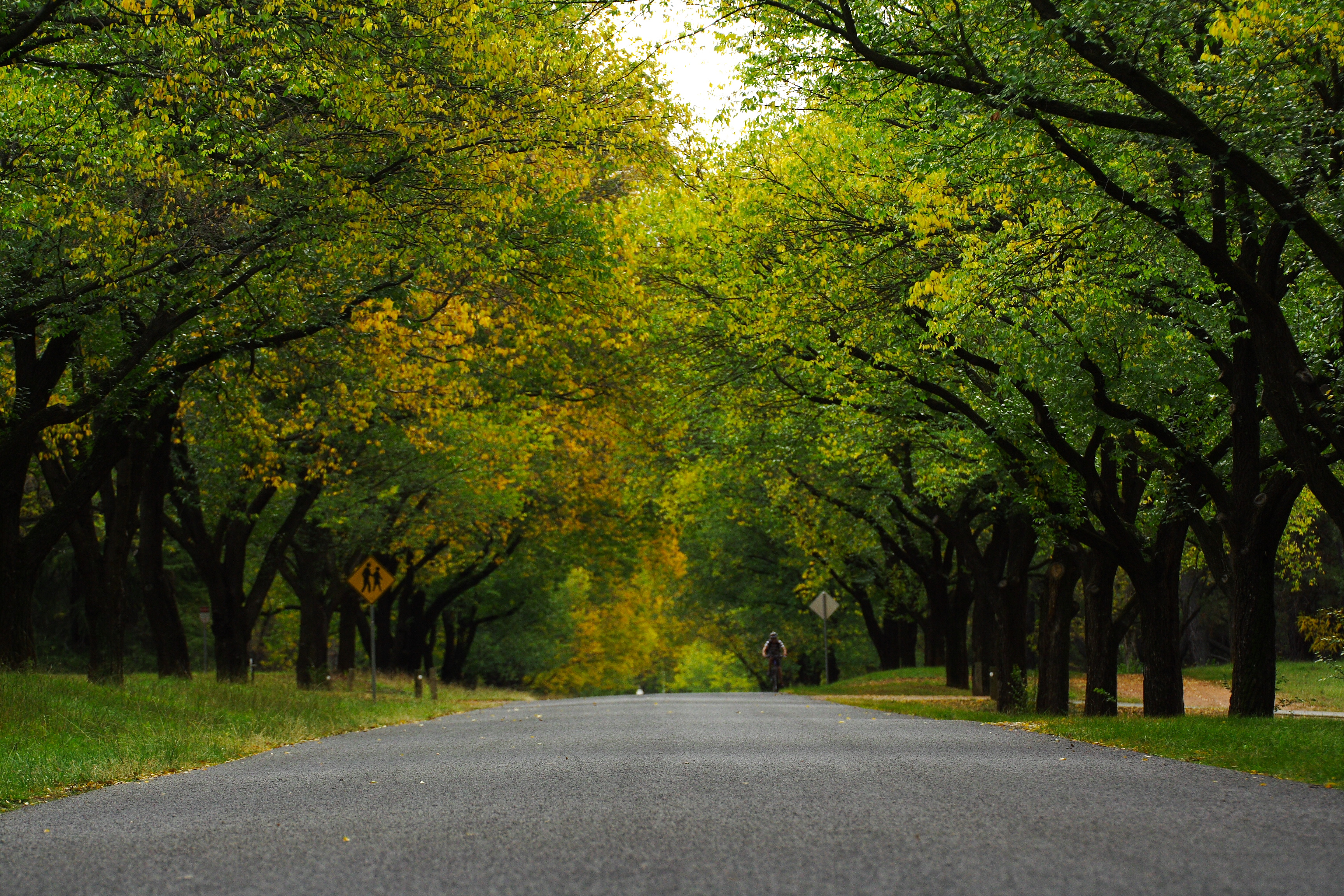 The Dunrossil Drive in Canberra.